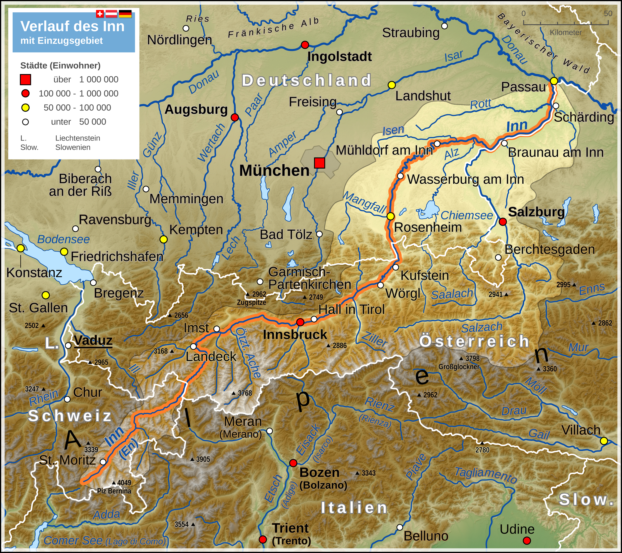 Map of Inn river (including drainage basin)